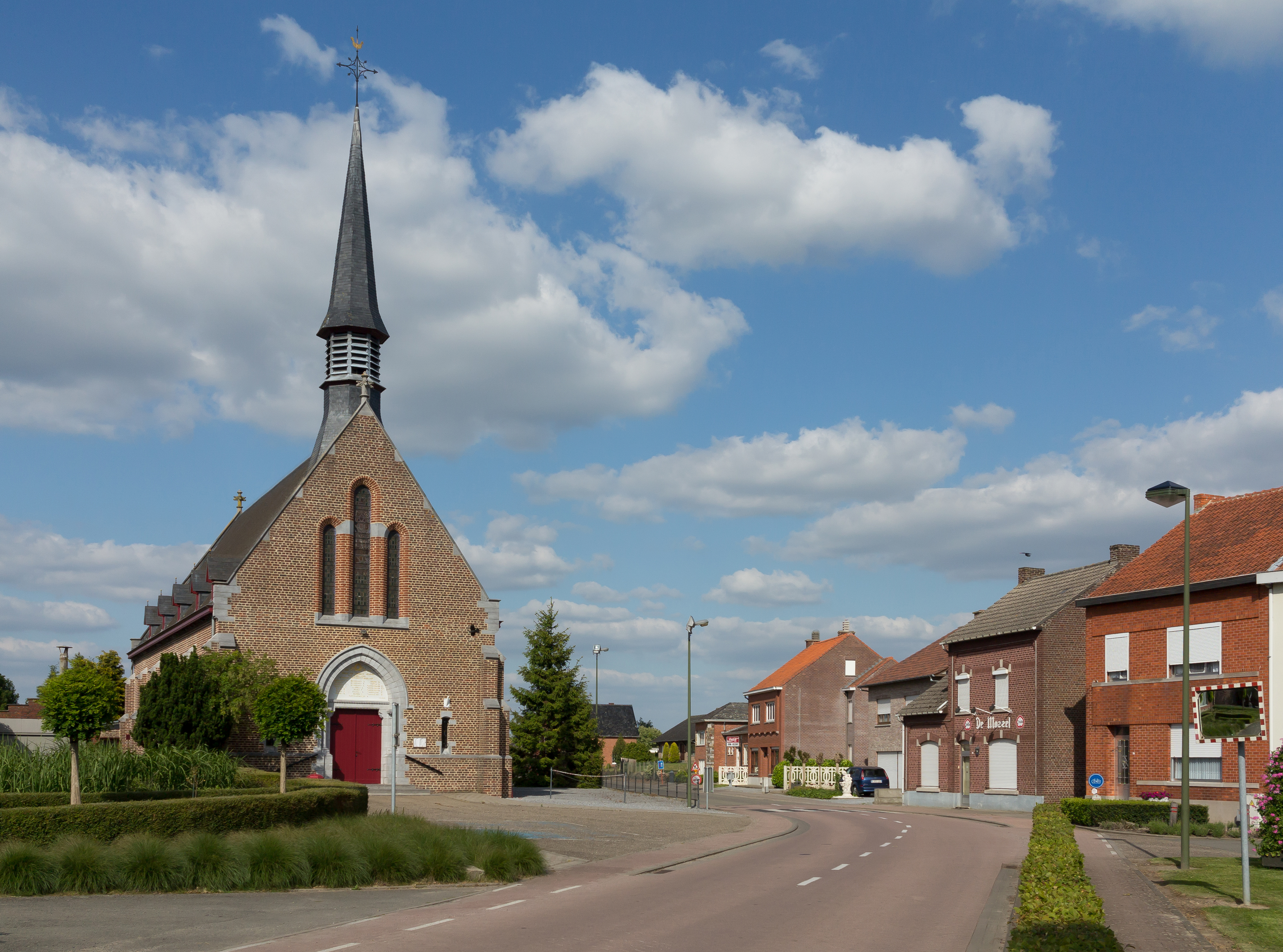 Grazen, church: parochiekerk Onze-Lieve-Vrouw